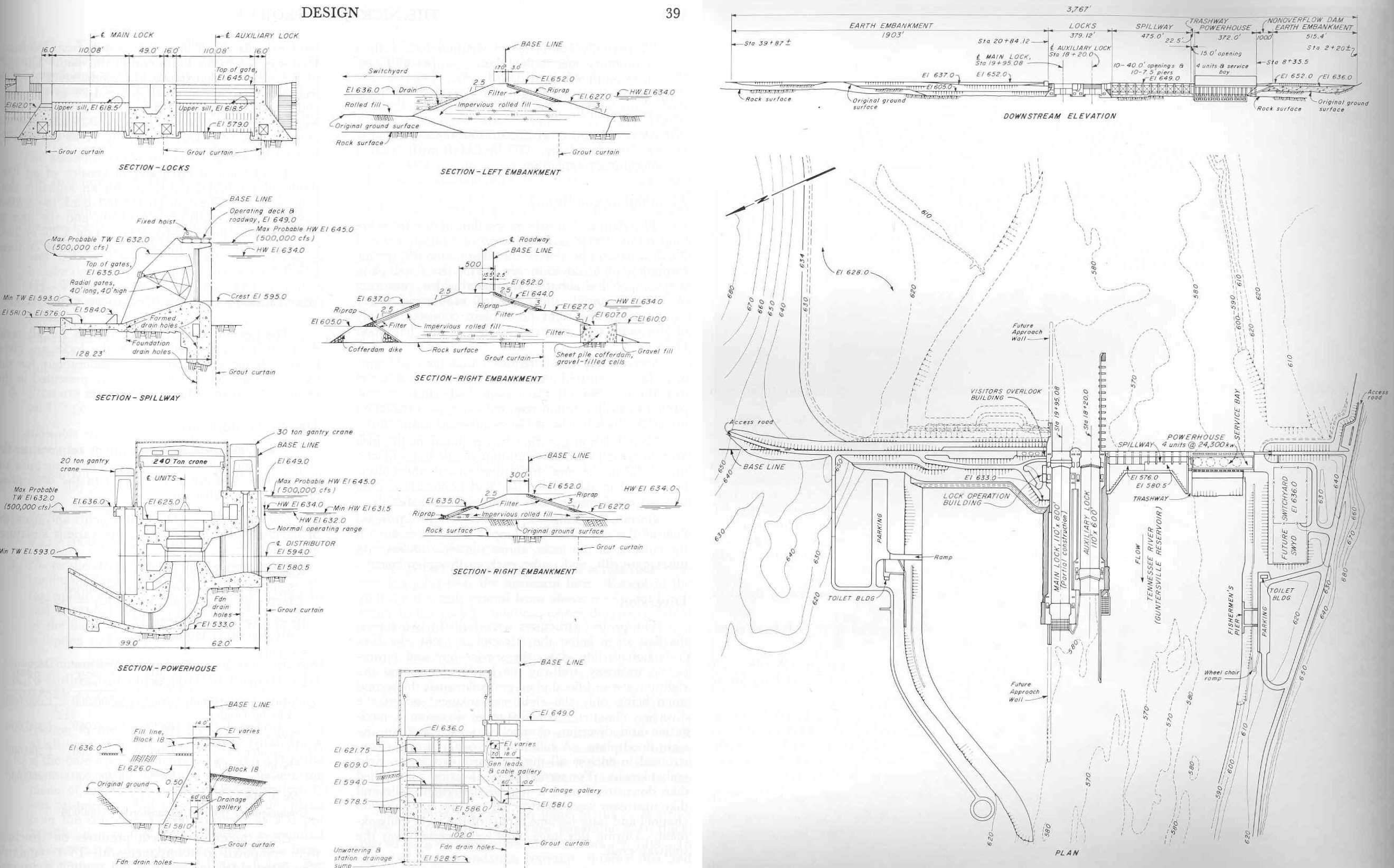 TVA's design plan for Nickajack Dam on the Tennessee River, in the southeastern United States.